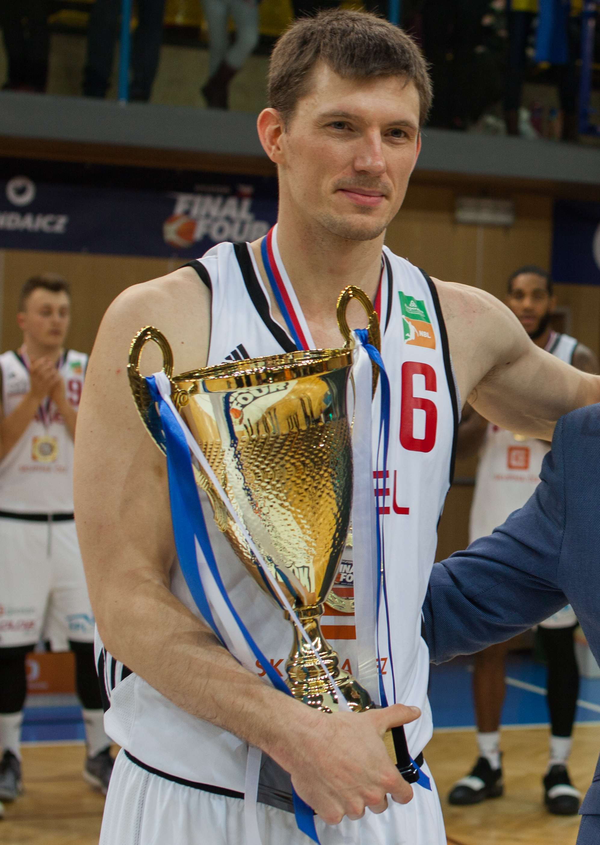 Stanislav Kopecký, mayor of Nový Jičín with final ward of Czech basketball cup Hyundai Final4 between clubs BK Opava-ČEZ Basketball Nymburk (Nový Jičín, 10 February 2019)